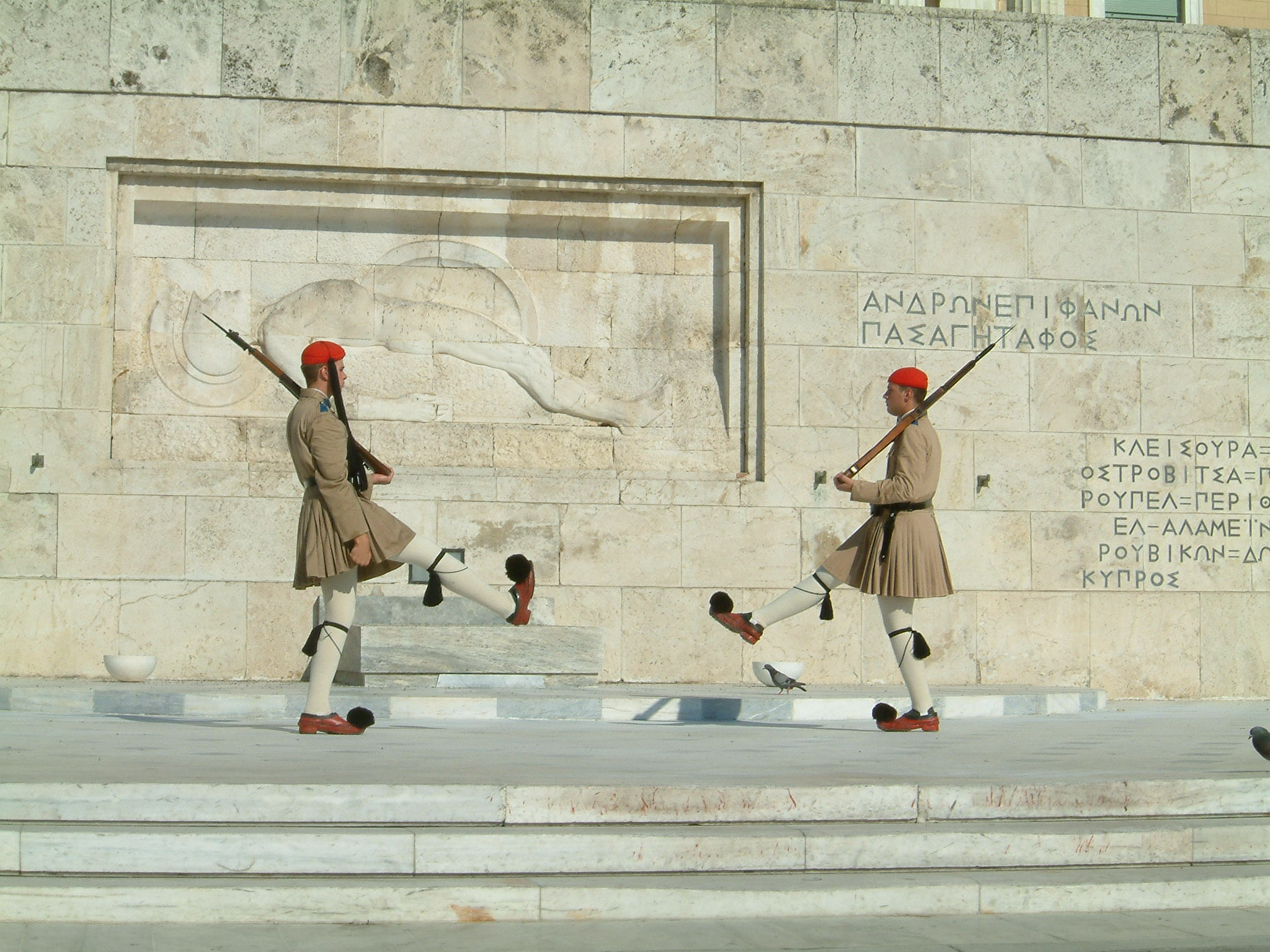 The Greek Presidential guard during their ceremonial walk in front of the Greek Parliament at the monument to all the lost soldiers.